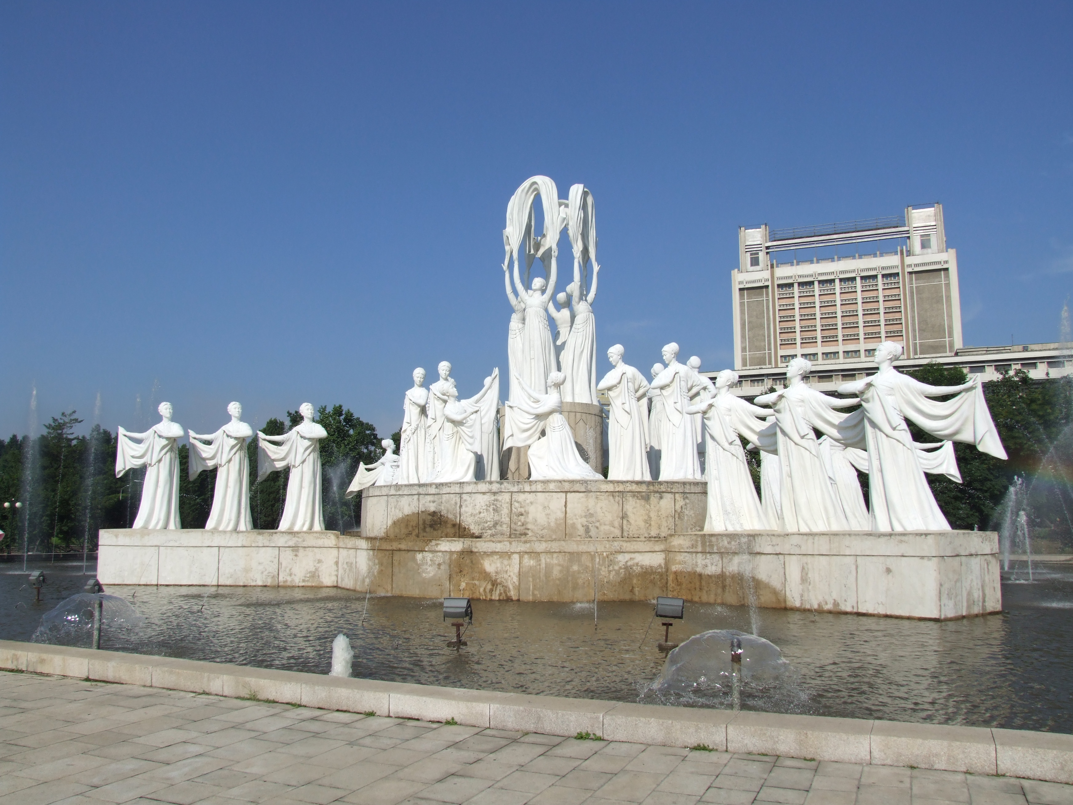 Mansudae Fountain Park